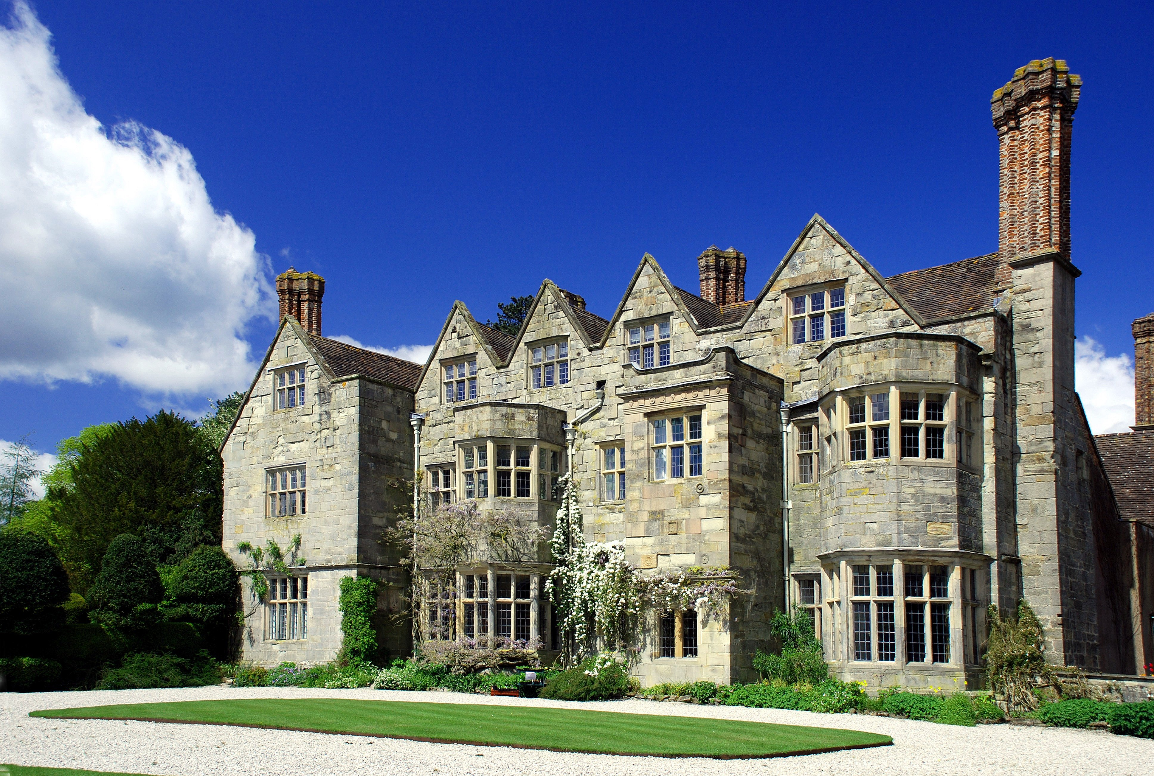 Benthall Hall Wikidata has entry Q4890381 with data related to this item.